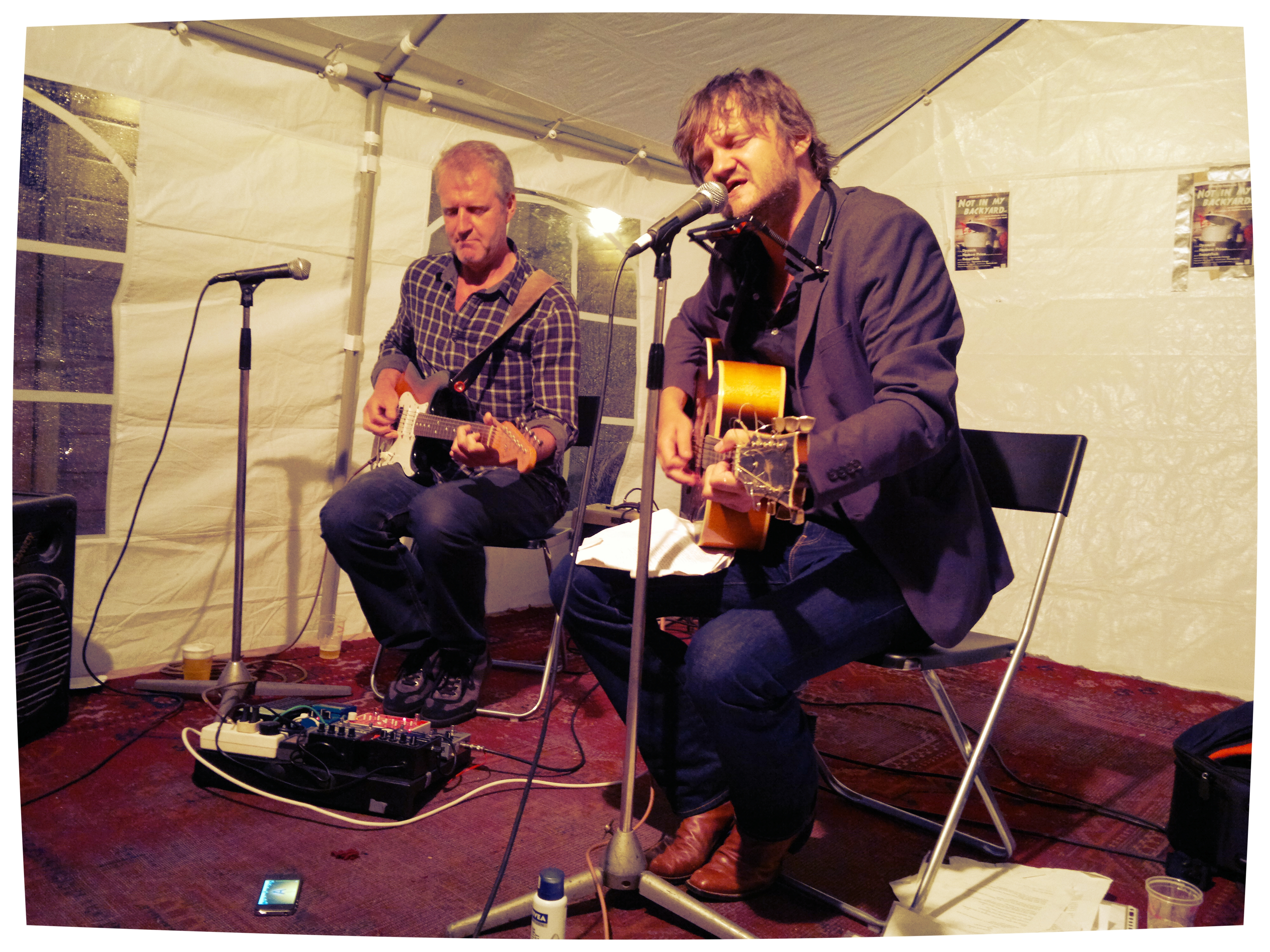 Smutfish in 2012